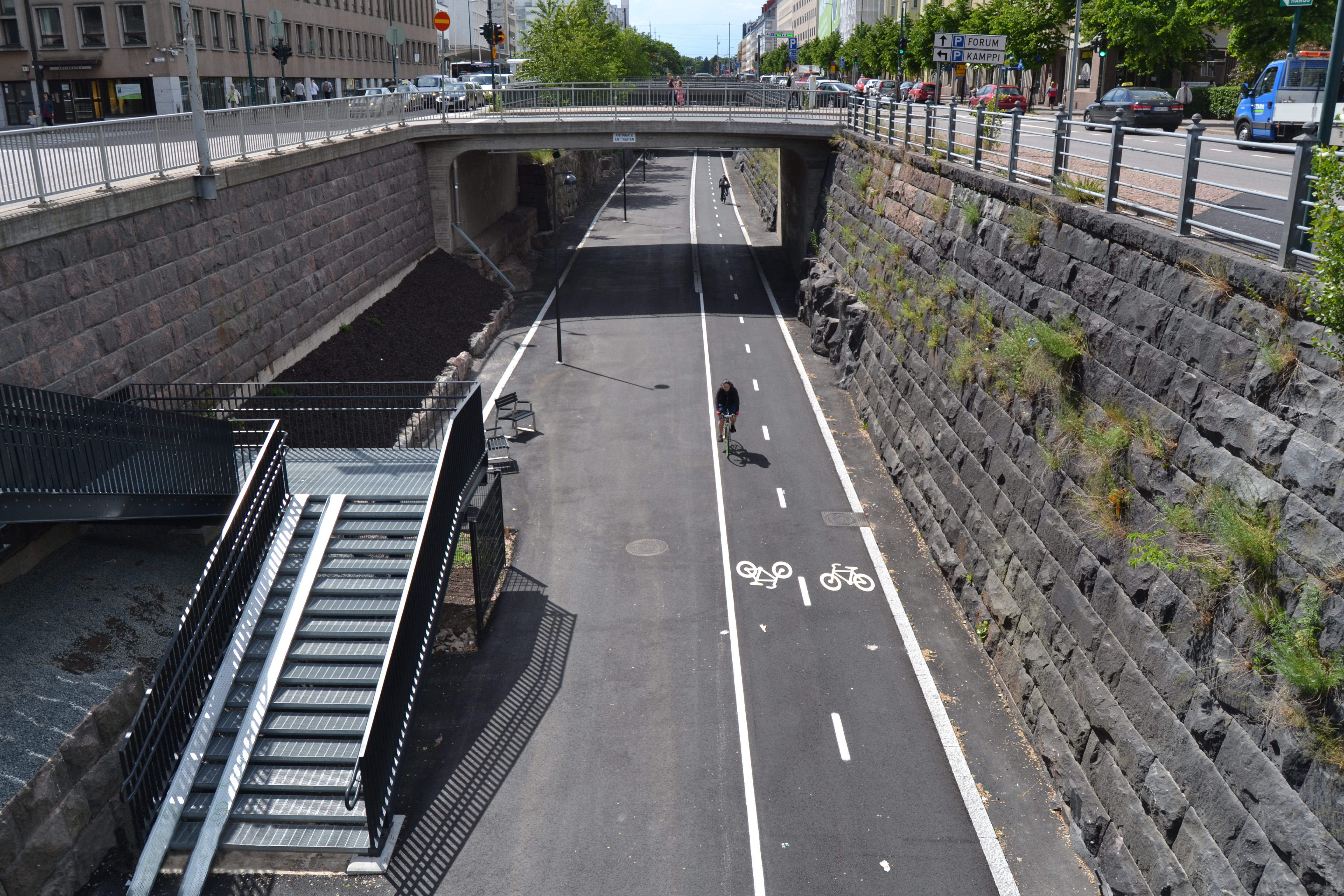 "Baana", a bicycle road built on a former railway corridor in central Helsinki, Finland.